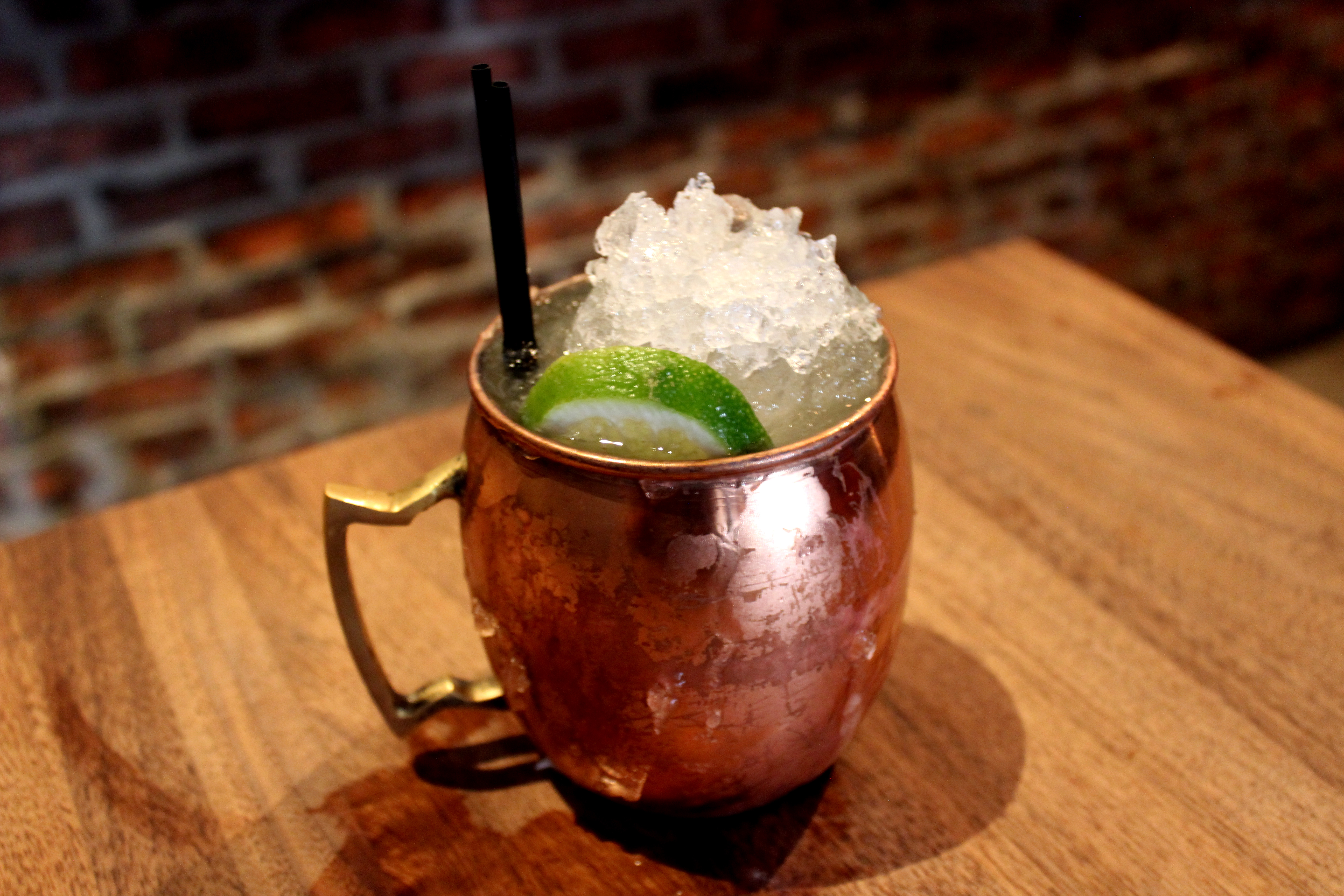 A Moscow Mule served in the classic copper mug at Rye in San Francisco, California's Lower Nob Hill.